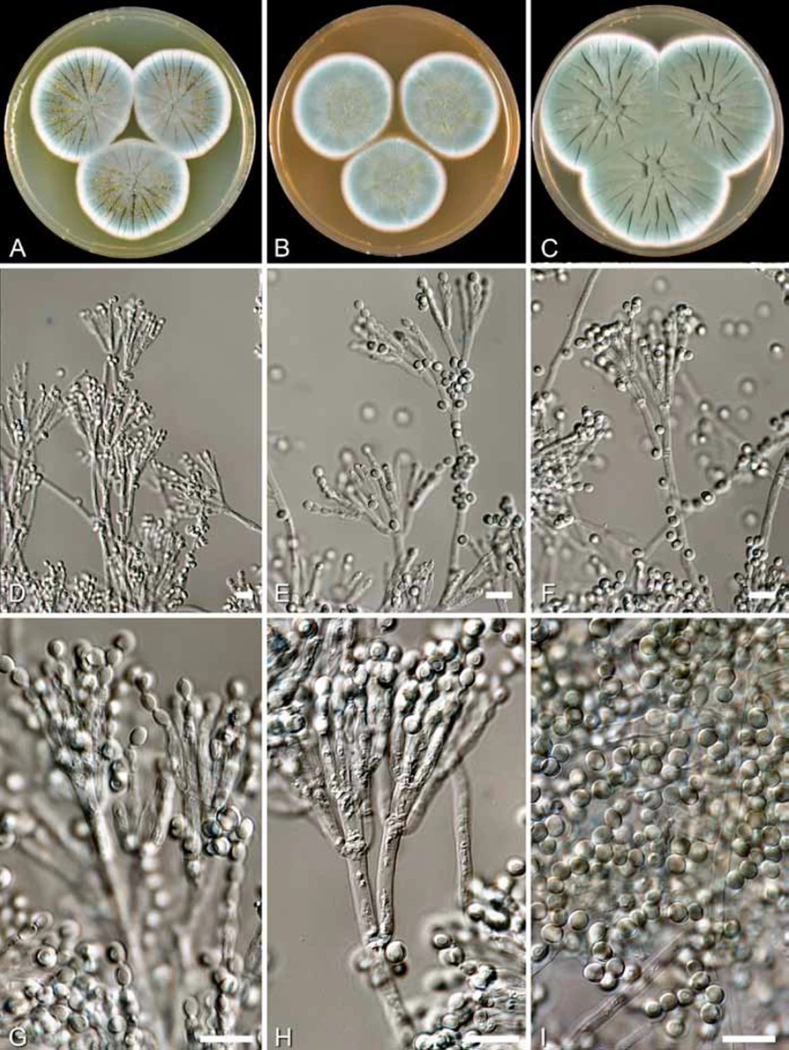 Penicillium rubens CBS 205.57 (Fleming’s original penicillin-producer). A–C. Colonies 7 d old 25 °C. A. CYA. B. MEA. C. YES. D–H. Condiophores. I. Conidia. Bars = 10 µm.